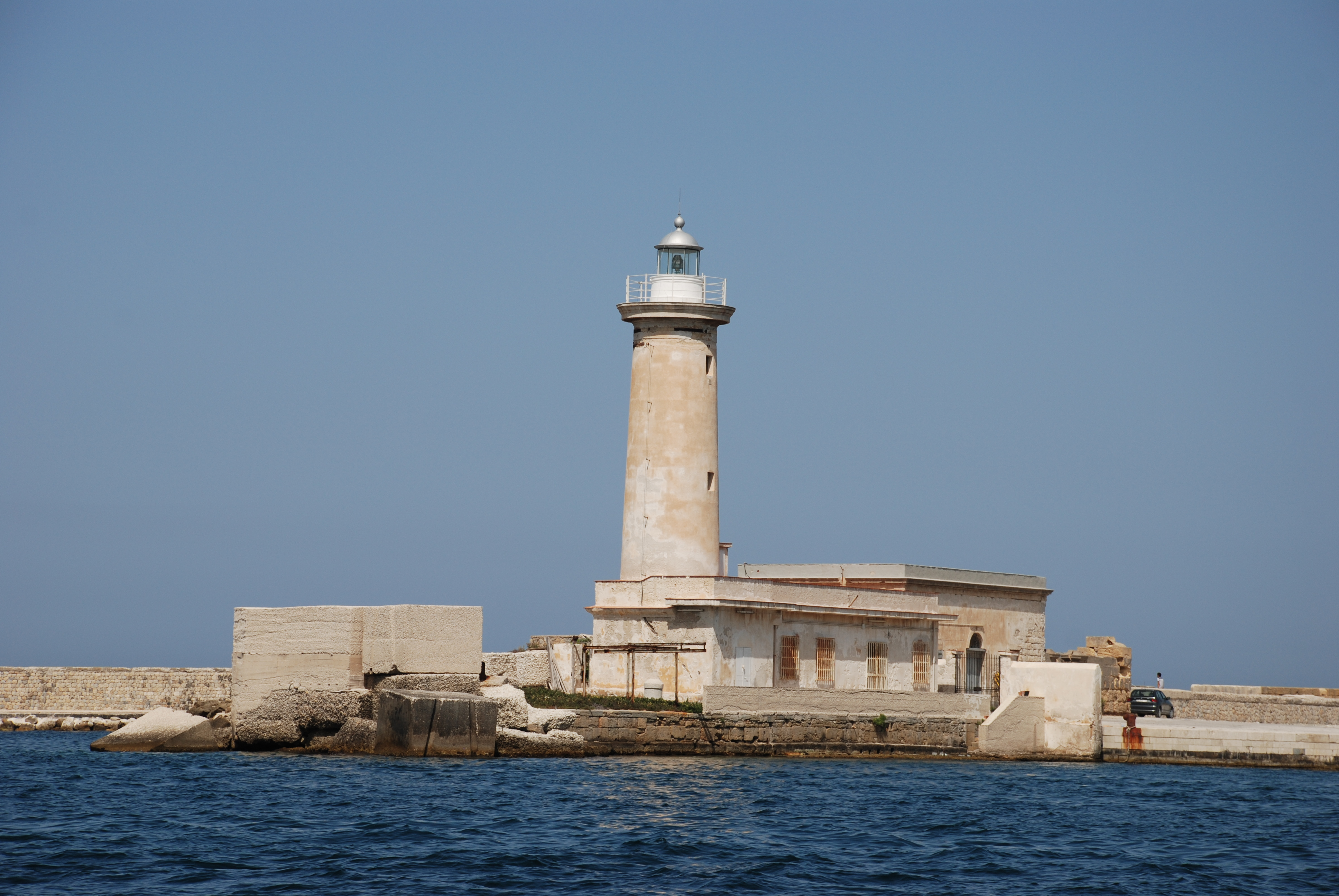 The lighthouse at the port of Marsala (Sicily)